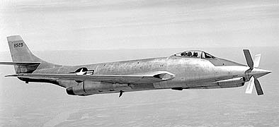 The McDonnell XF-88B Voodoo in flight during USAF flight testing.